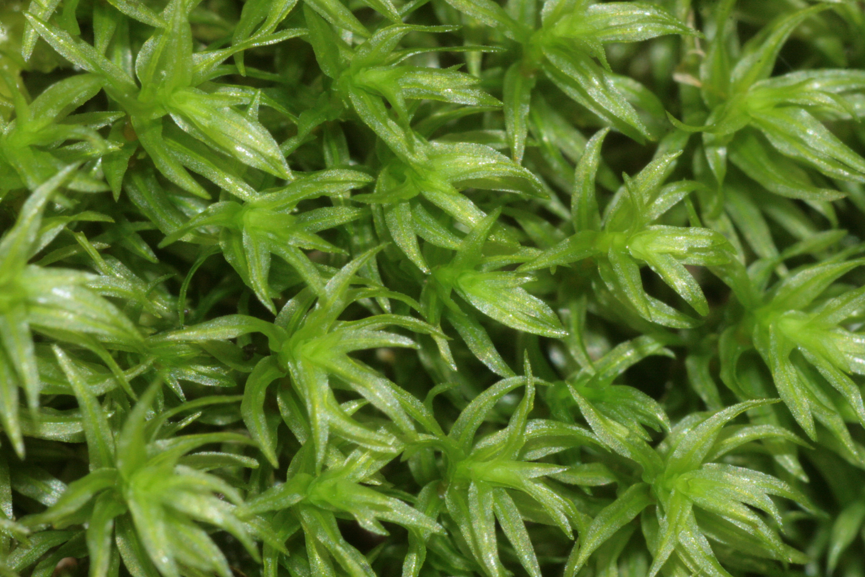 Dichodontium pellucidum